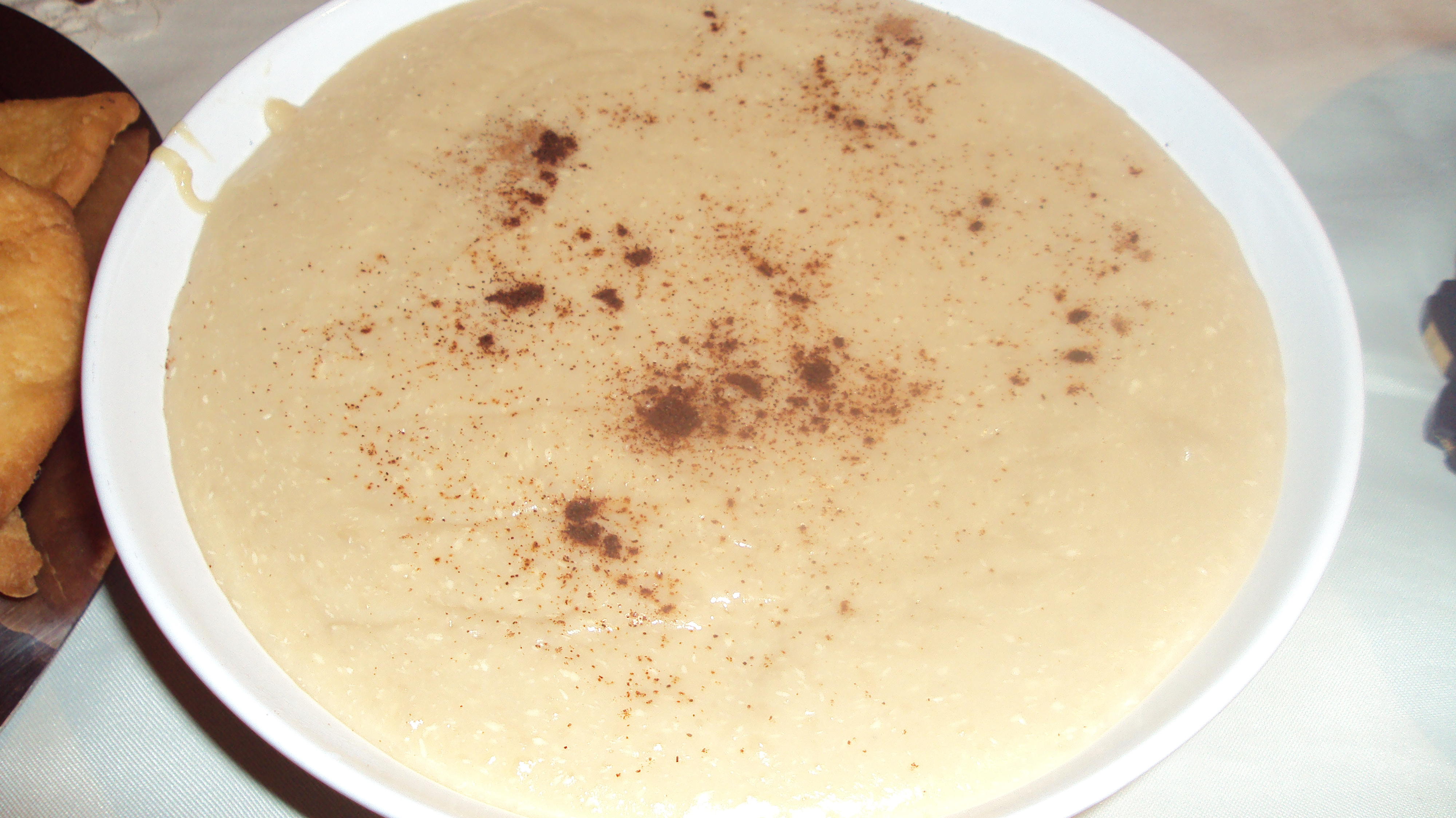 Colombian Natilla after it has been let to get in room temperature and with powdered cinammon sprayed on top.